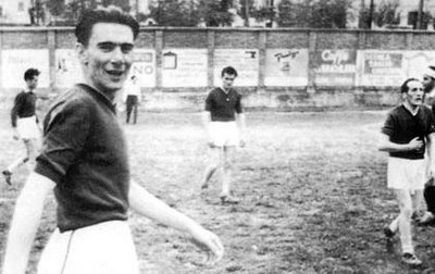 Young Fenoglio